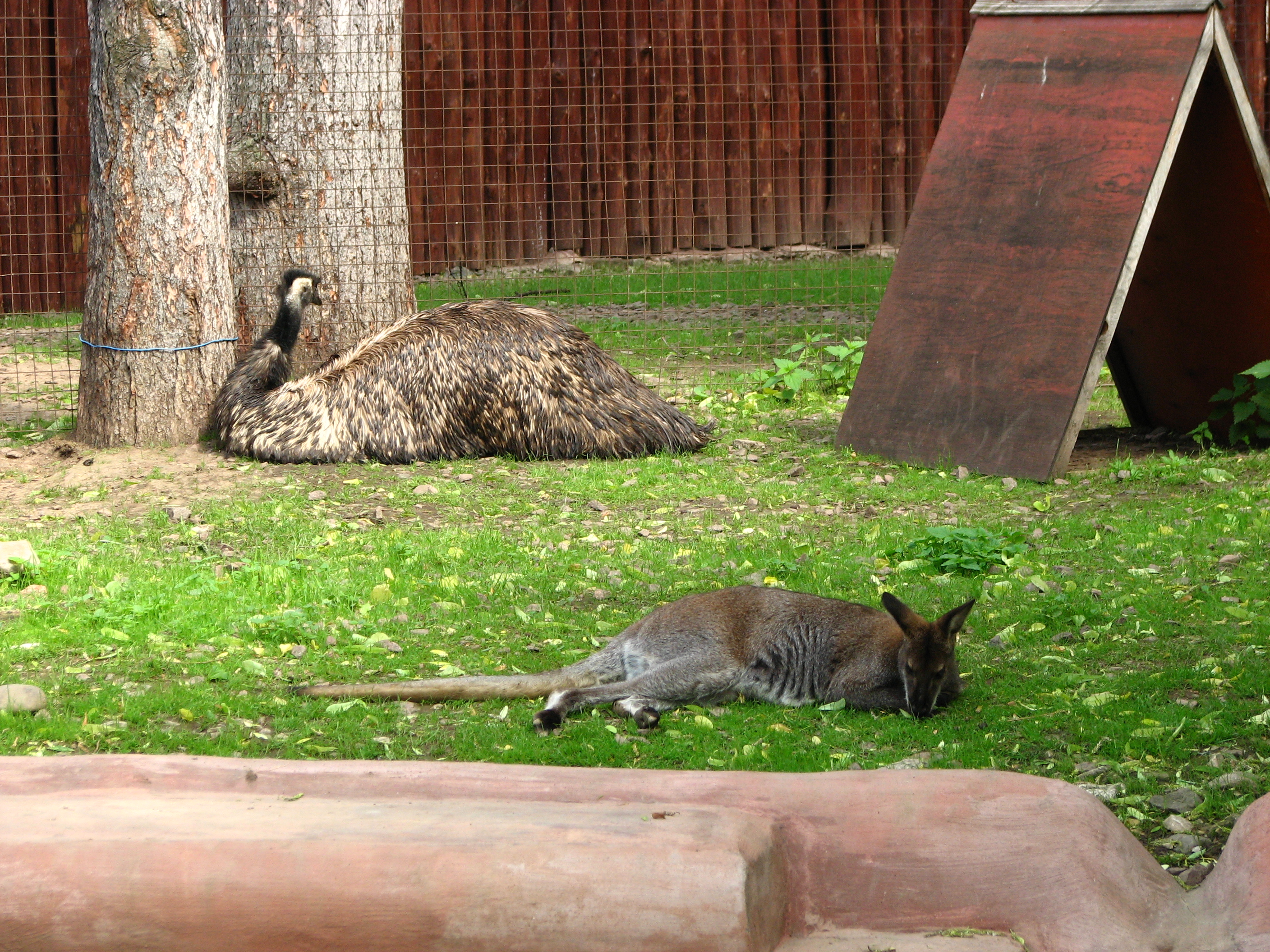 Moscow Zoo. Exposition "Australia". Bennet's kangaroo (Makropus rufogriseus; in the foreground) and emu.